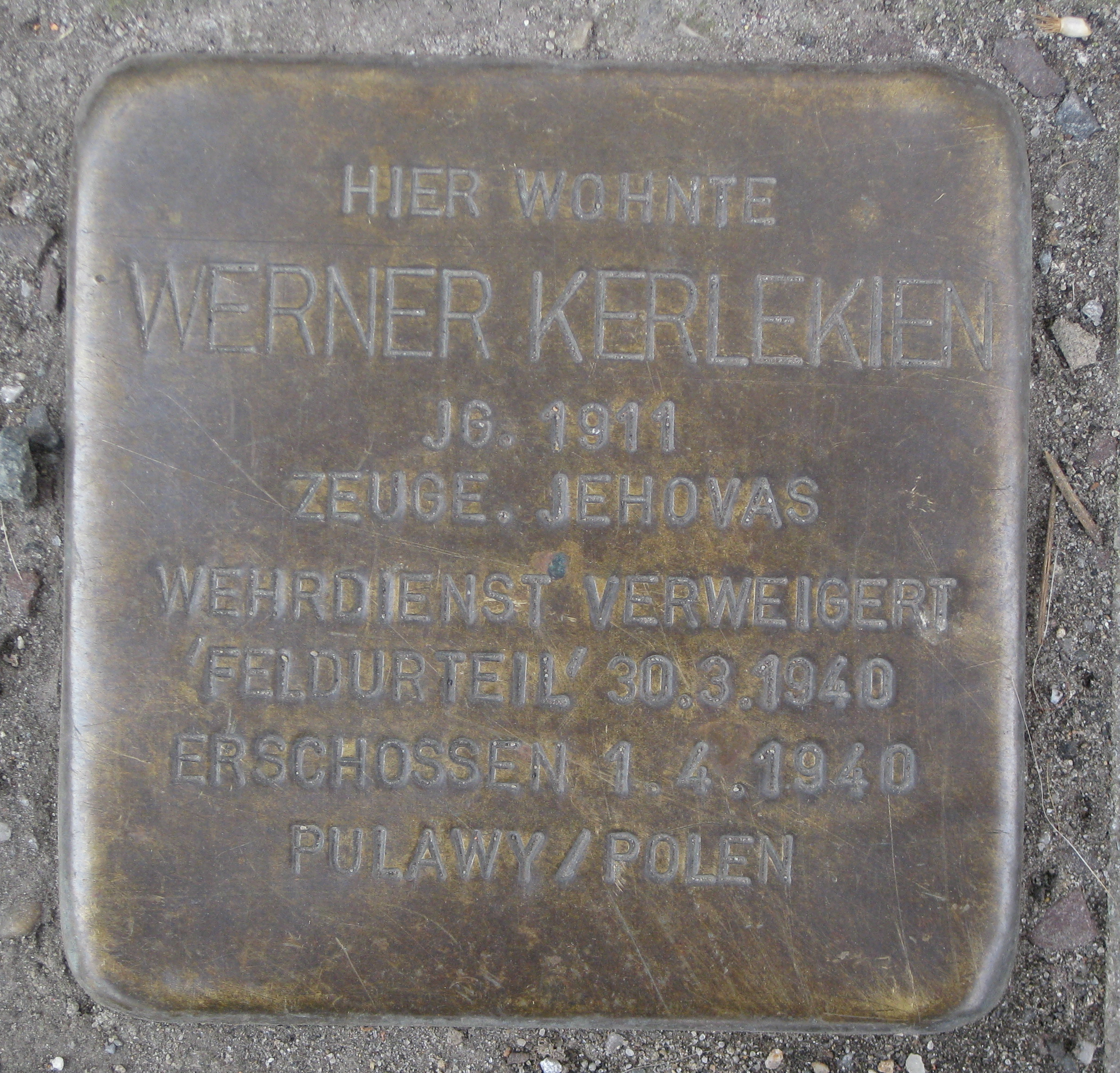 Stolperstein in memory of Werner Kerlekien at the location Kiefholzstraße 21.